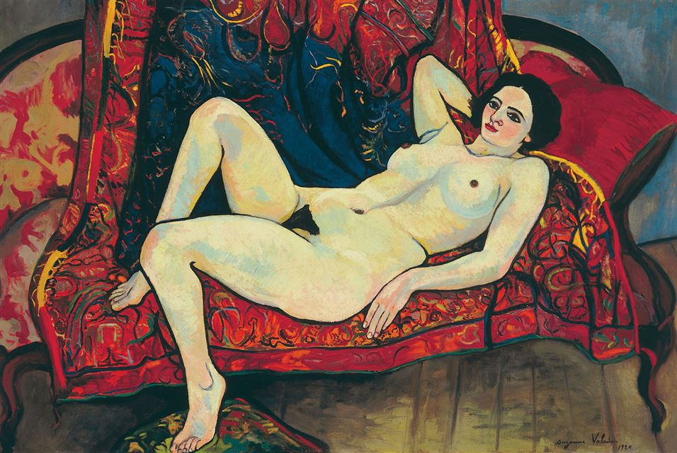 Nu au canapé rouge by Suzanne Valadon, oil on canvas, 80 x 120 cm., Musée du Petit Palais Genève, 1920